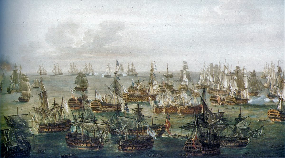 Trafalgar Battle - 21st of Octaber 1805 - Situation at 17h